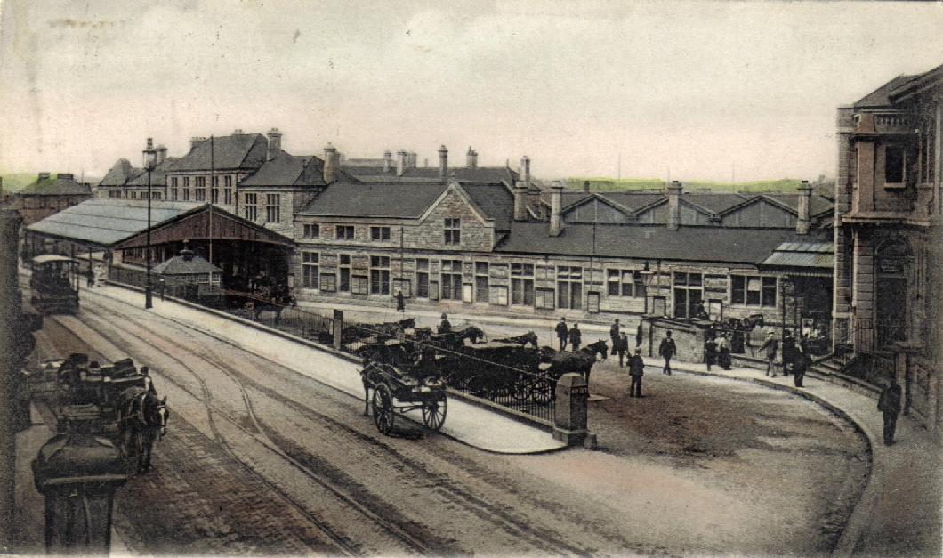 The forecourt of Plymouth Millbay railway station after rebuilding in 1903.